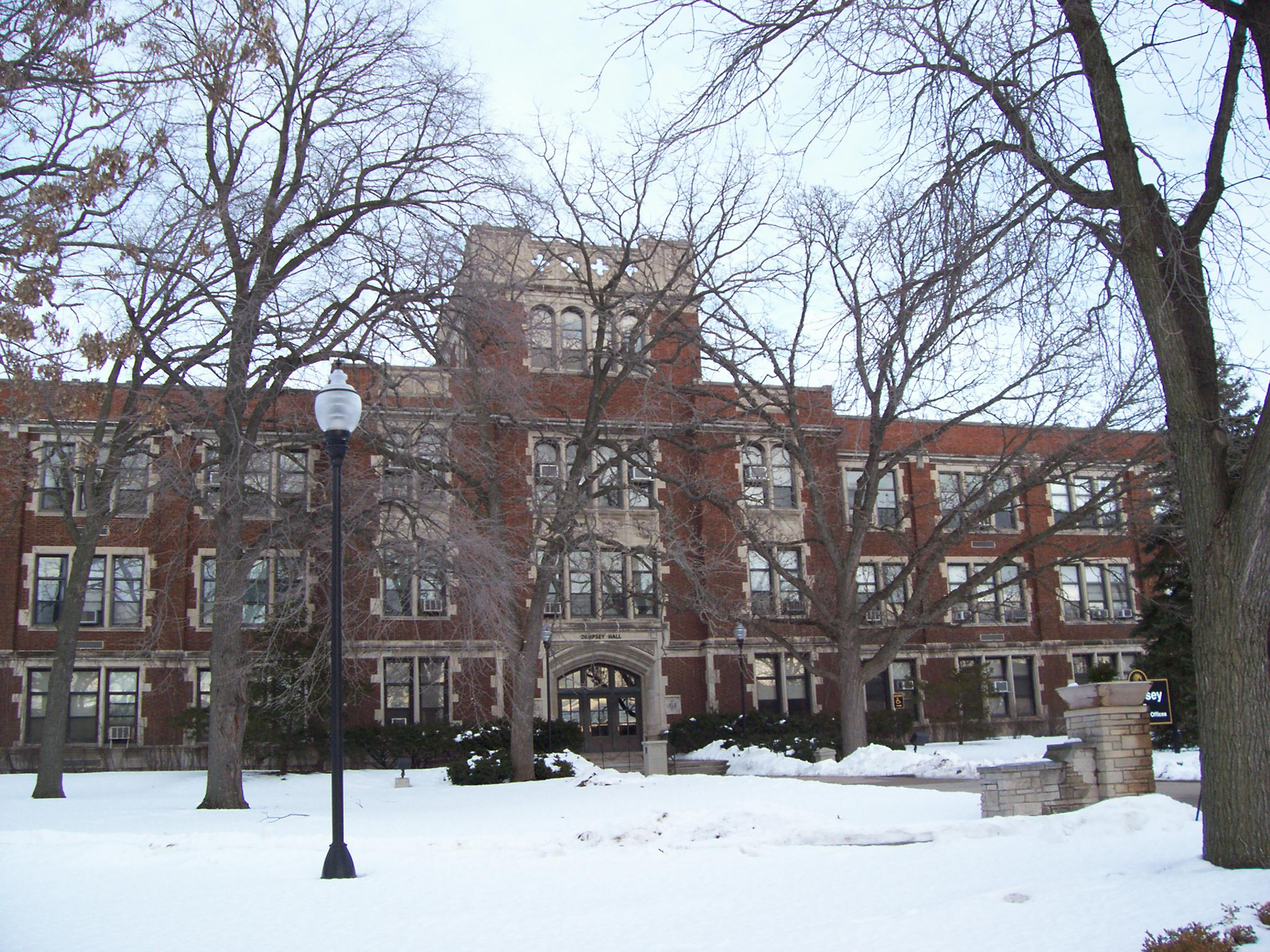 Dempsey Hall the administration building at the University of Wisconsin-Oshkosh. It is a national registered place as part of the Oshkosh State Normal School Historic District.